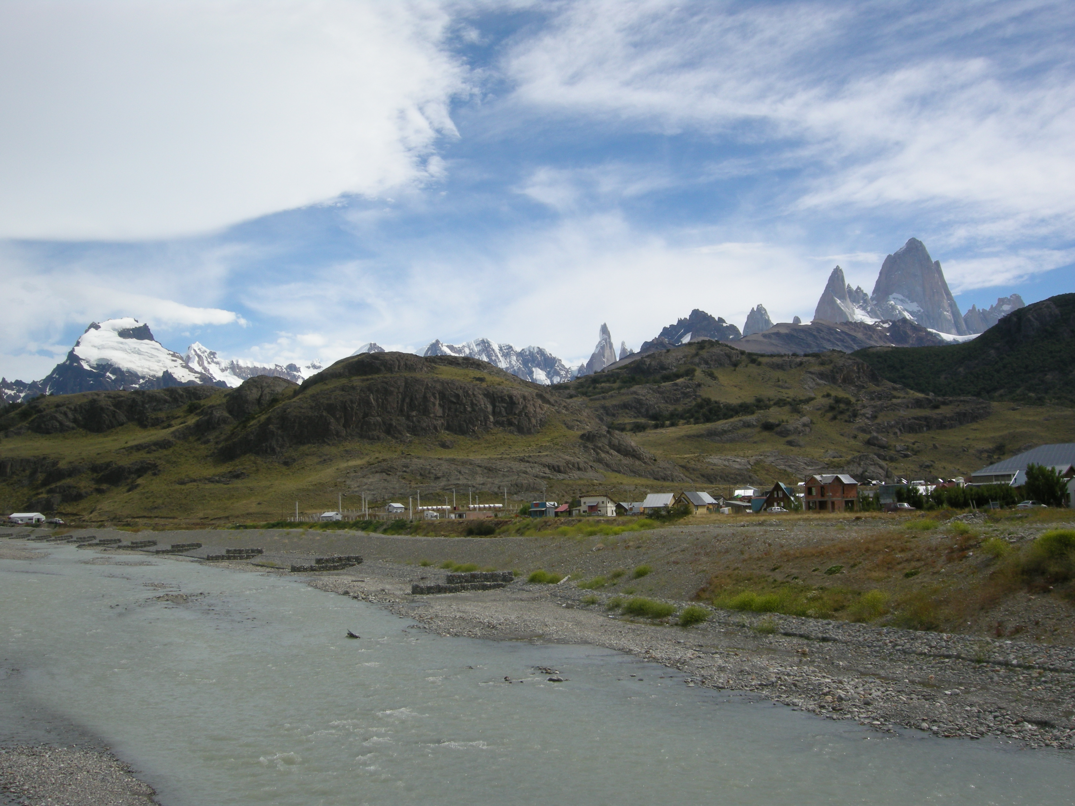 View of the Fitz Roy massif, the village of El Chaltén, and the Río Fitz Roy, from the bridge on the Río Fitz Roy at the entrance of El Chaltén (Santa Cruz province, Argentina).